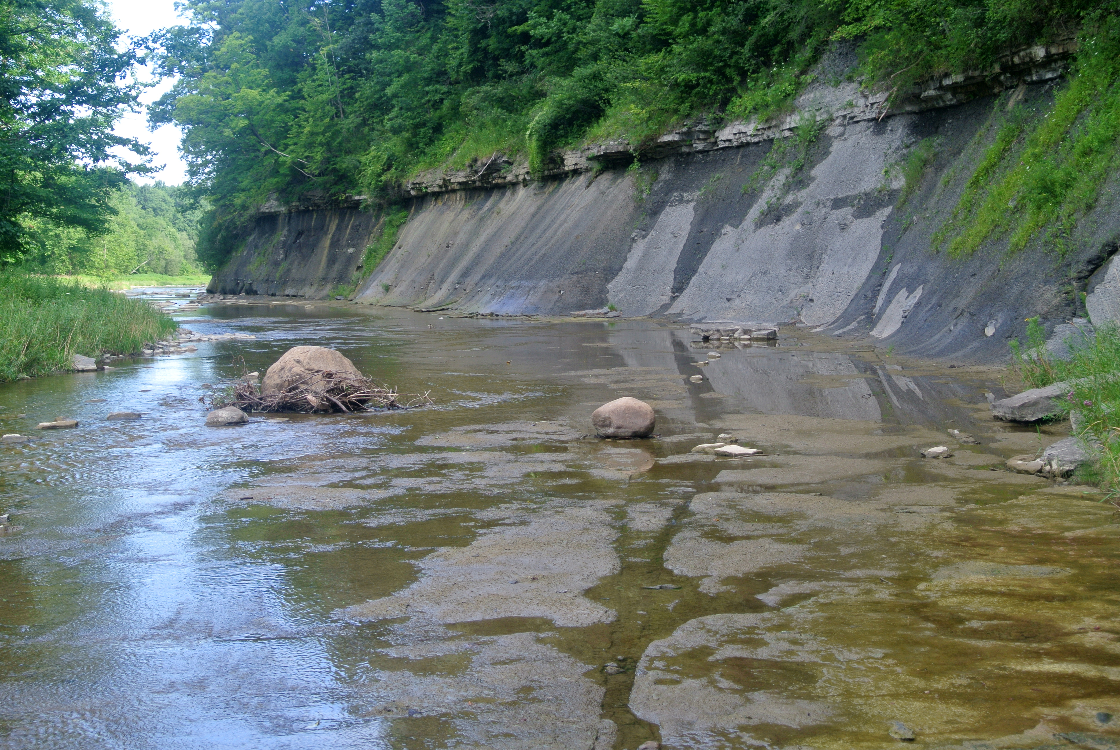 Buffalo Creek flowing near Elma, New York.